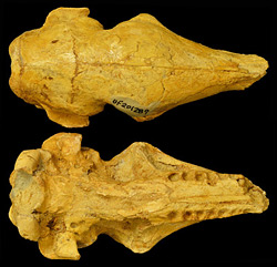 nearly complete skull fossil